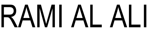 Logo of RAMI AL ALI